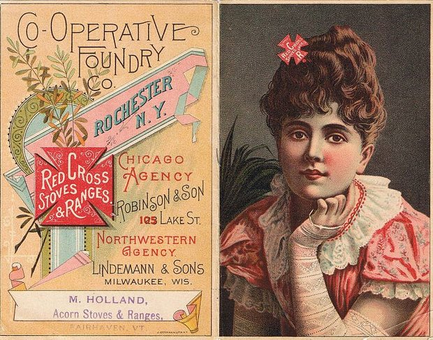 Red Cross stove 1890 brochure